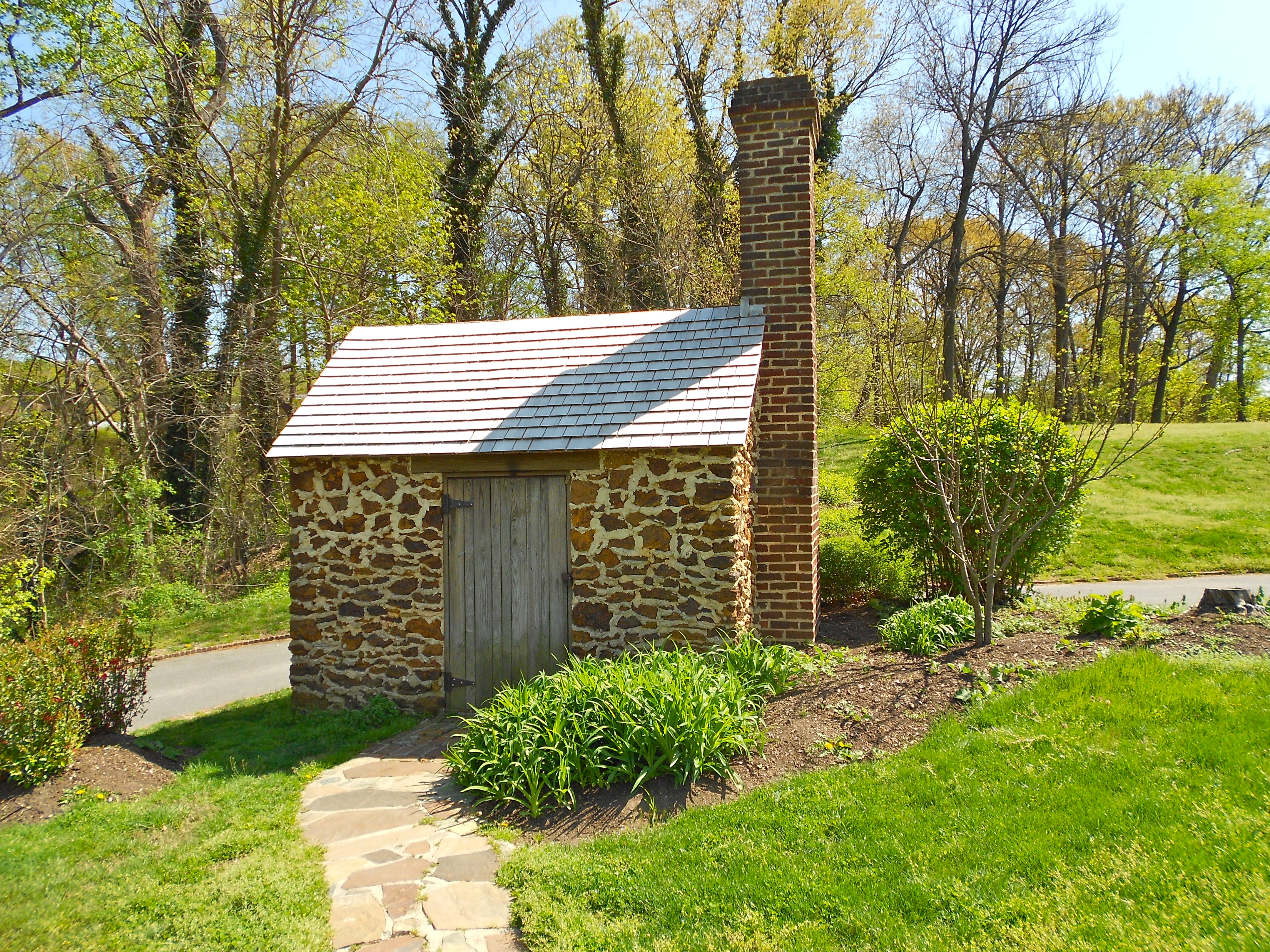 Reconstruction of the "Growlery" where Frederick Douglass worked next to his home in Washington, DC.